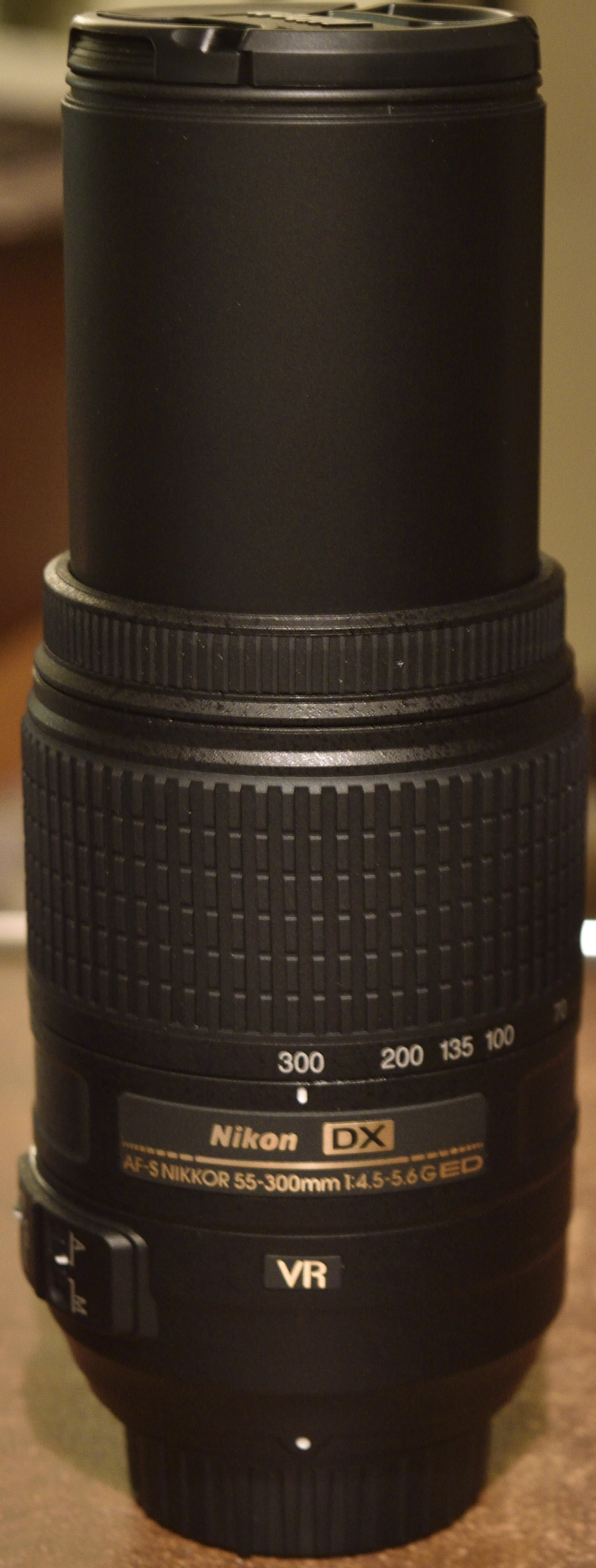 Lens extended at full zoom.